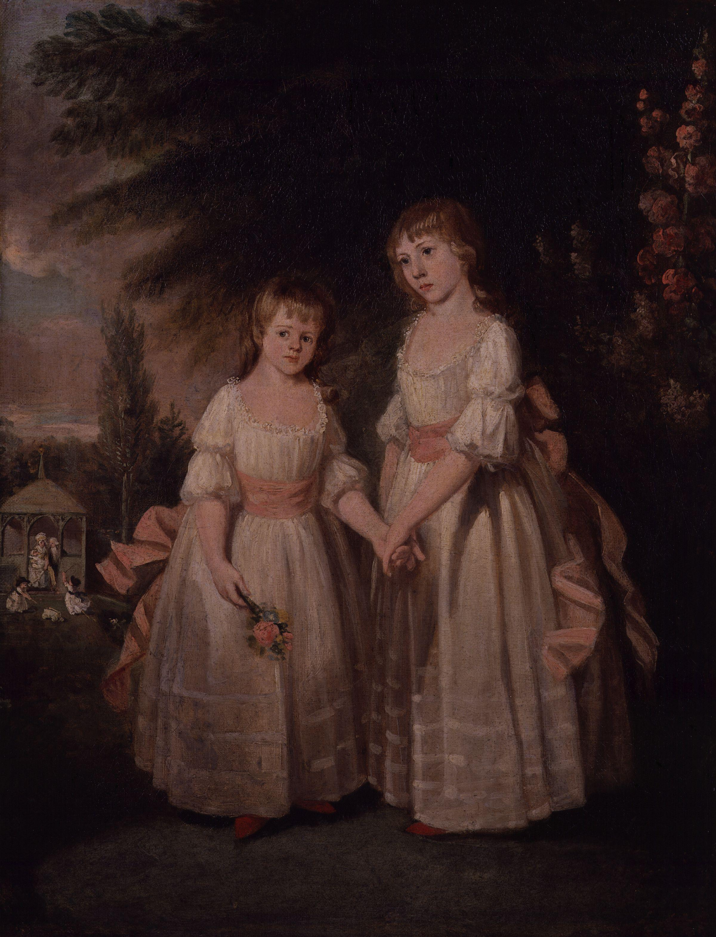 The Taylor Family (Martin Taylor; Ann Taylor; Jefferys Taylor; Isaac Taylor; Isaac Taylor; Jane Taylor; Ann Taylor), by Isaac Taylor (died 1829), given to the National Portrait Gallery, London in 1900. All images in this batch have been confirmed as author died before 1939 according to the official death date listed by the NPG.